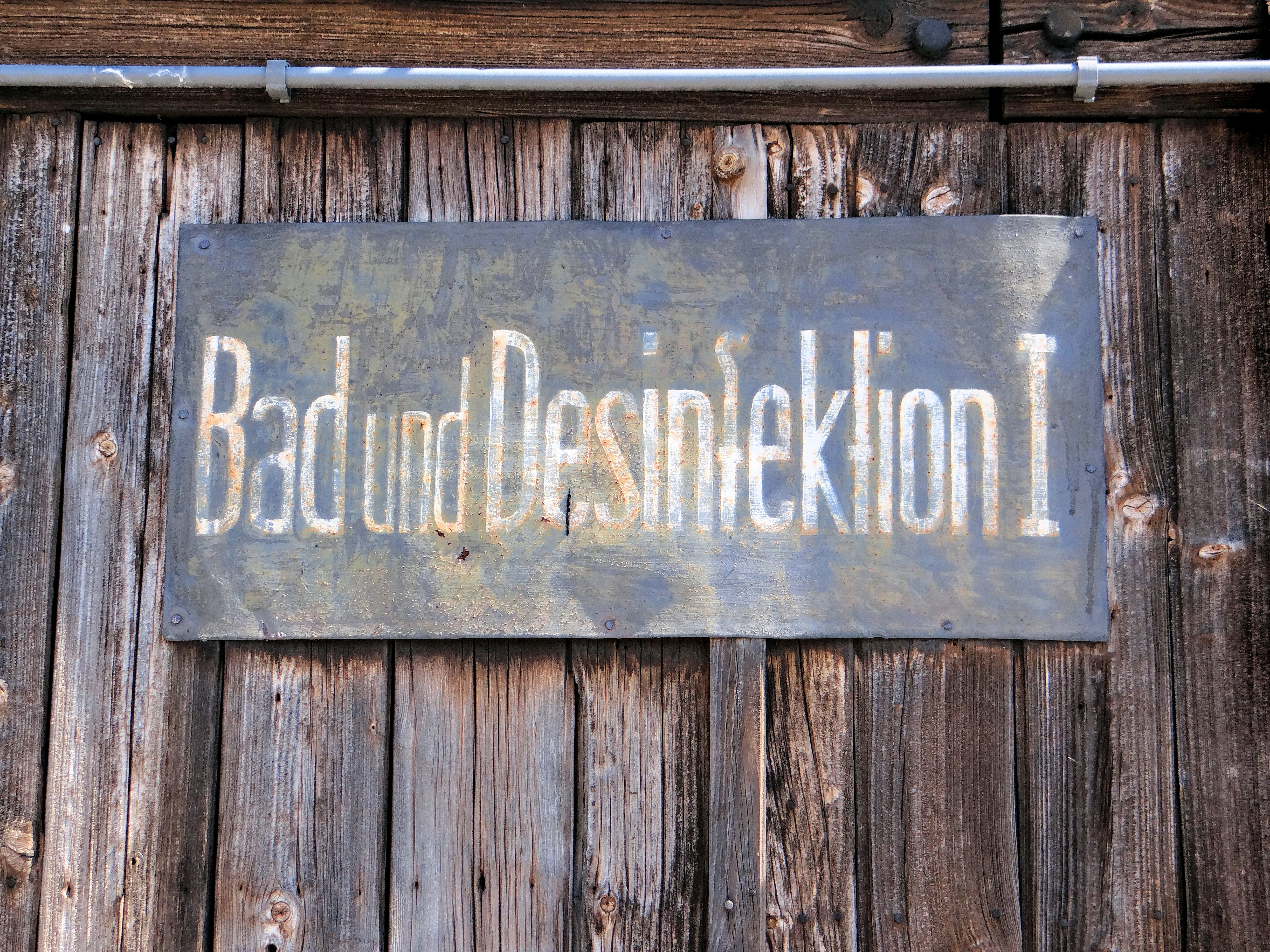 KL Majdanek Baths and Gas Chamber